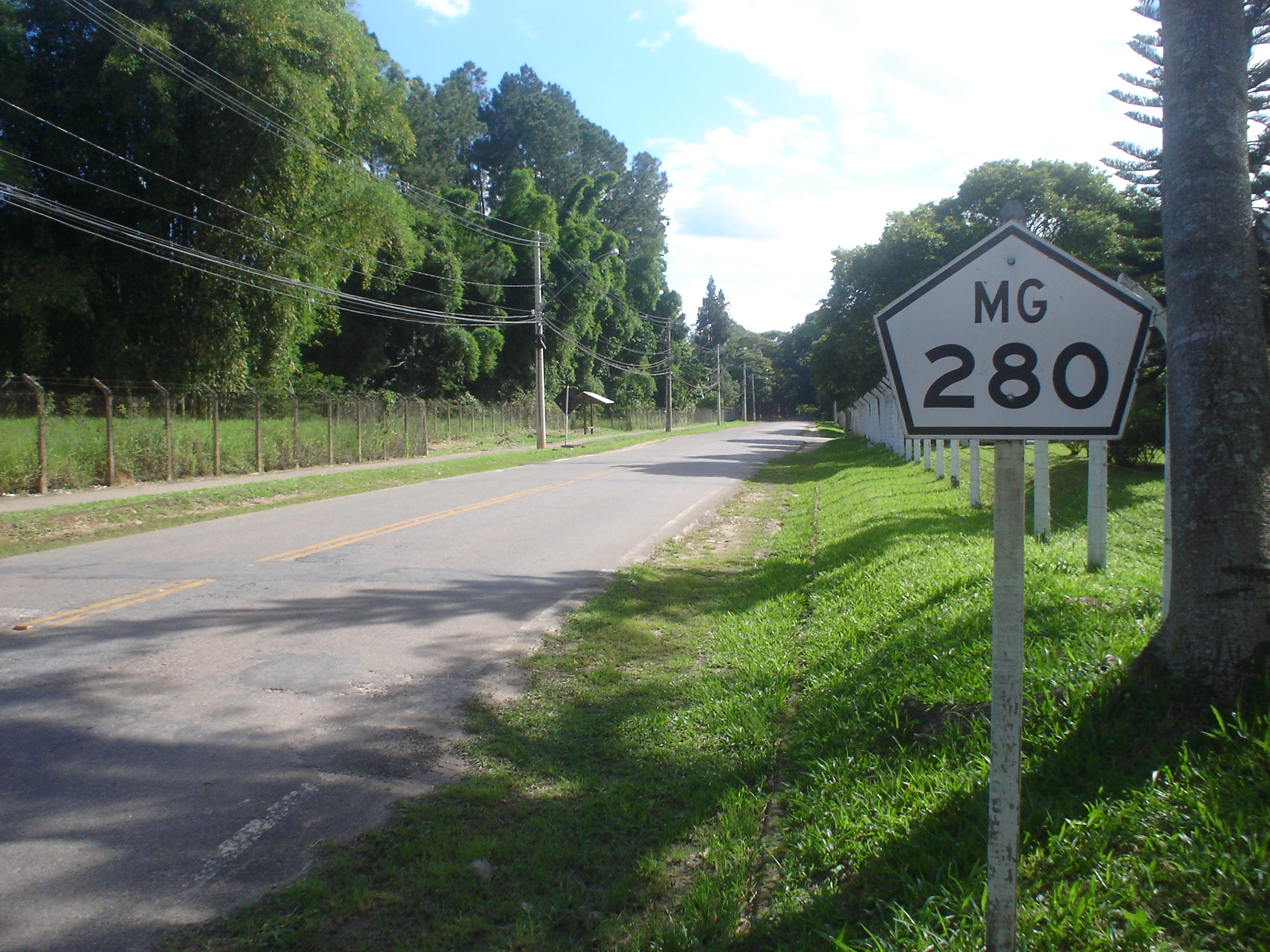 Road MG280 in Viçosa, Minas Gerais, Brazil